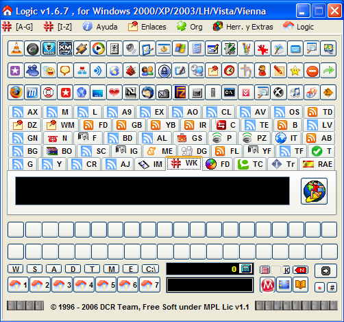 Free Logic image, open source security tool, author dcrteam group, website